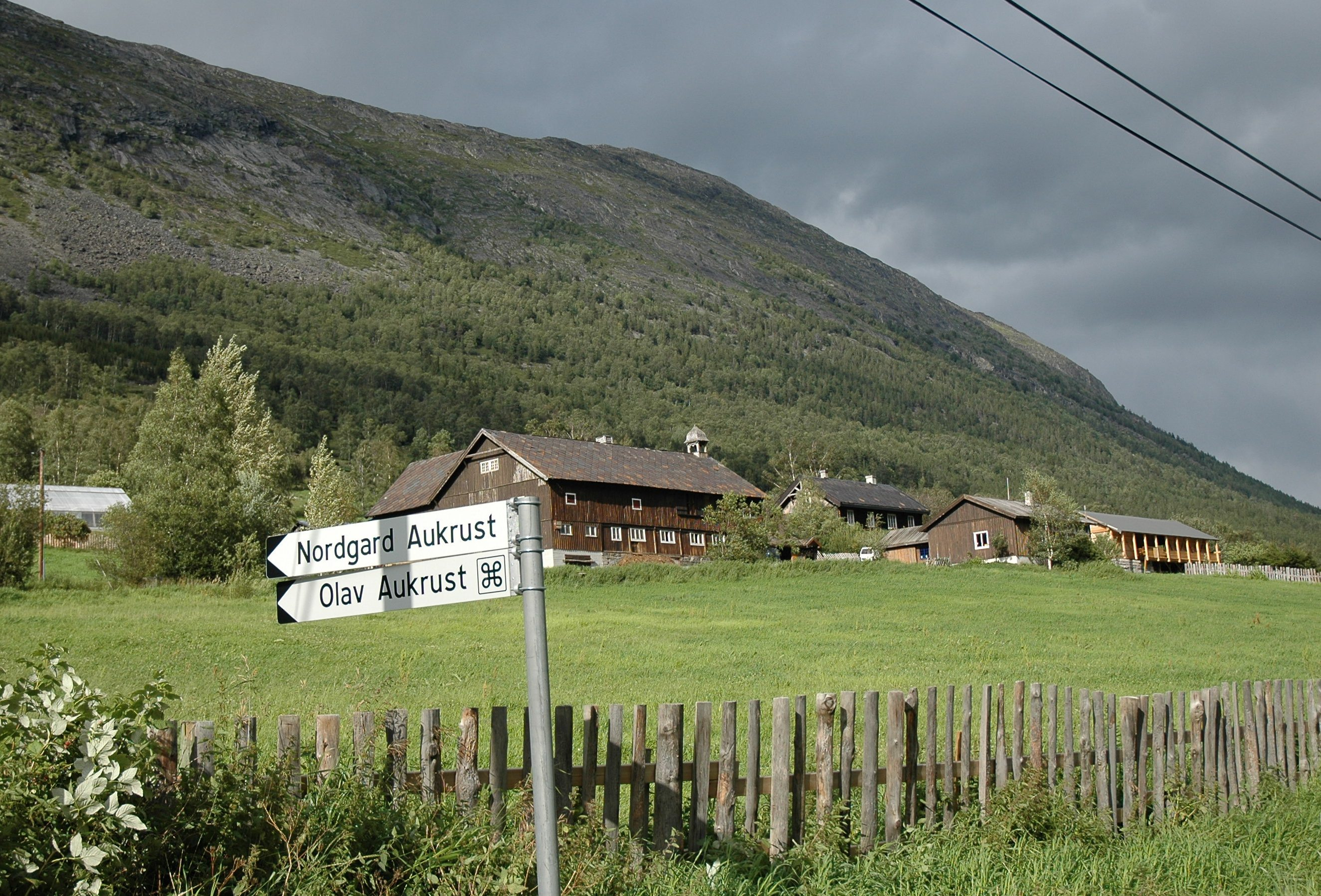 The farm Nordgard Aukrust in Lom, Norway; home of the poet Olav Aukrust